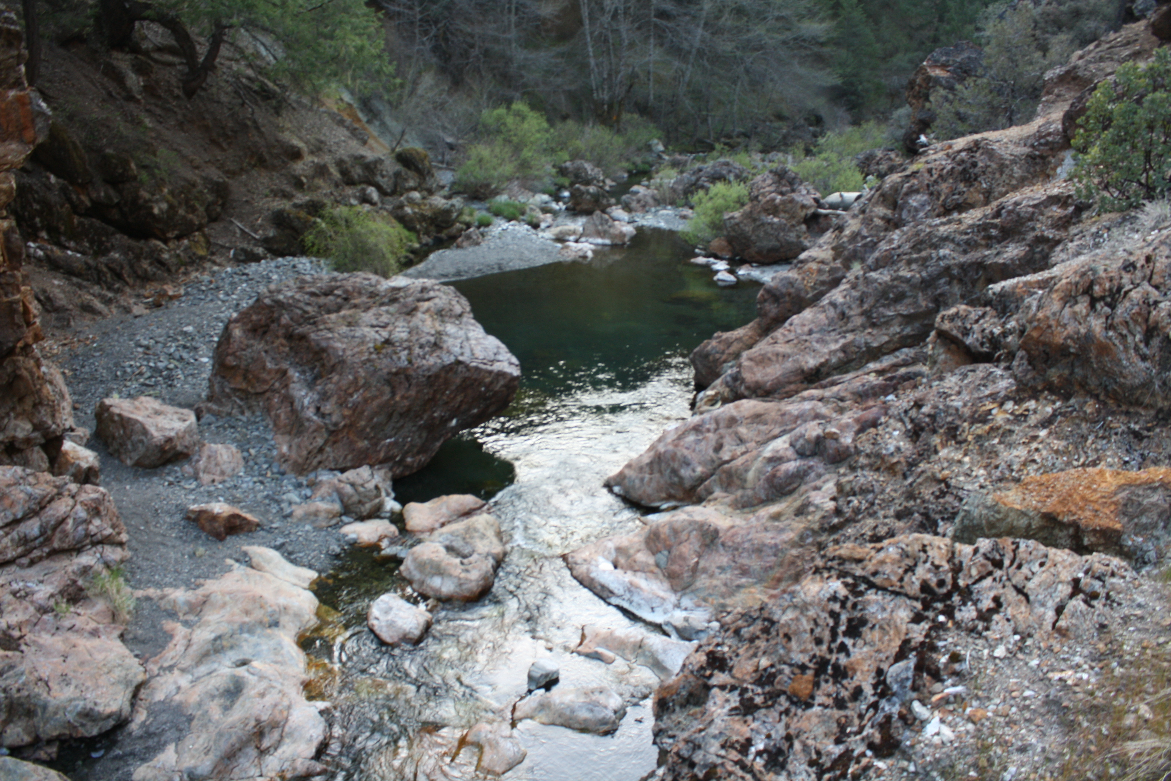 Crabtree Hot Springs, Mendocino National Forest, Lake County, California